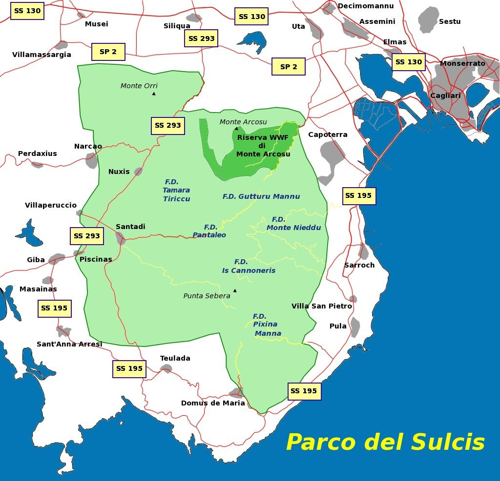 Map of Sulcis Natural Park in South Sardinia